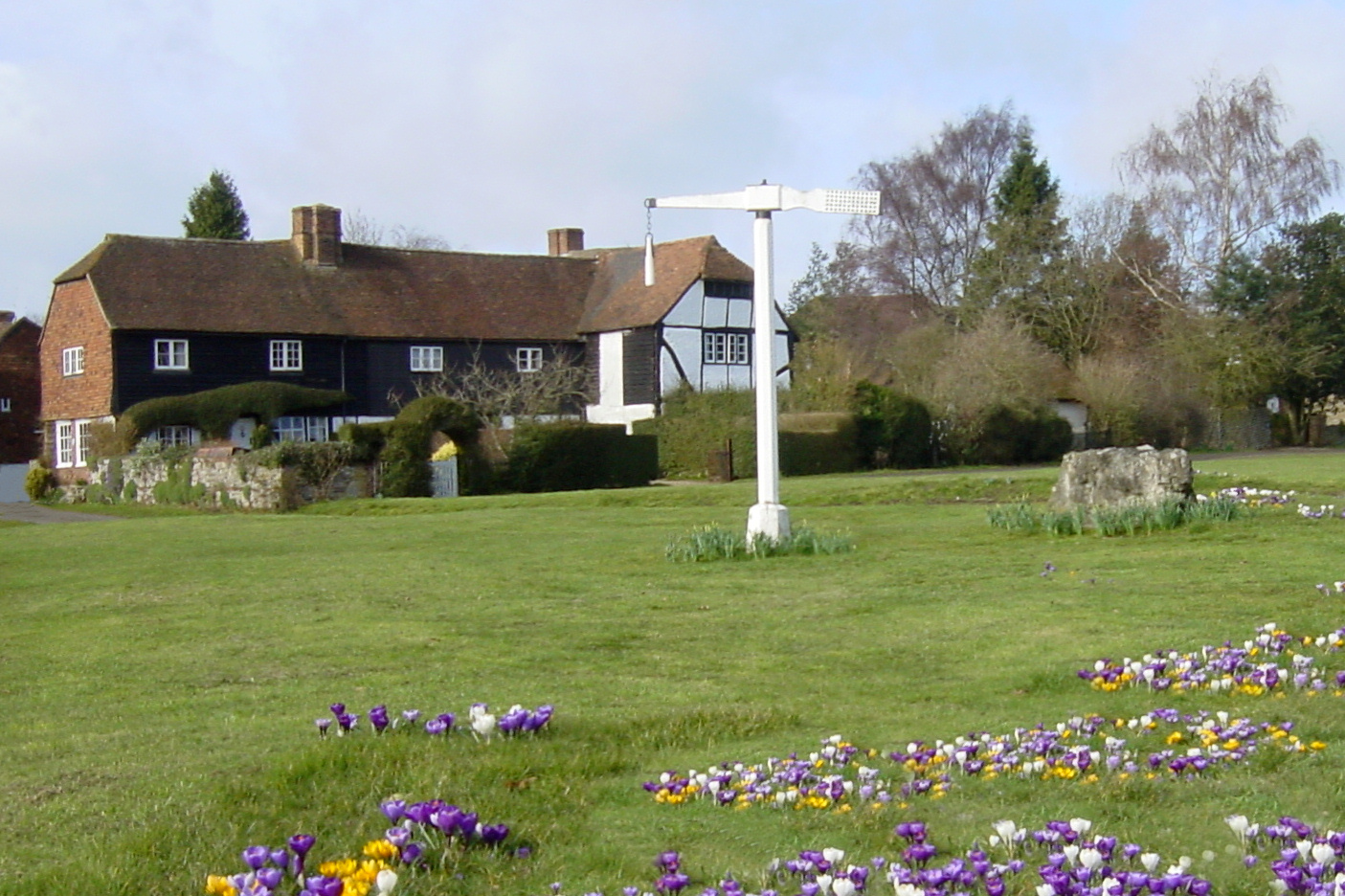 The Quintain on Offham Green, Kent with spring crocuses